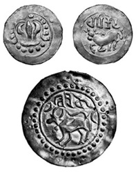 Coins of the Kingdom of Harikela in Eastern Bengal, excavated in Chittagong District.